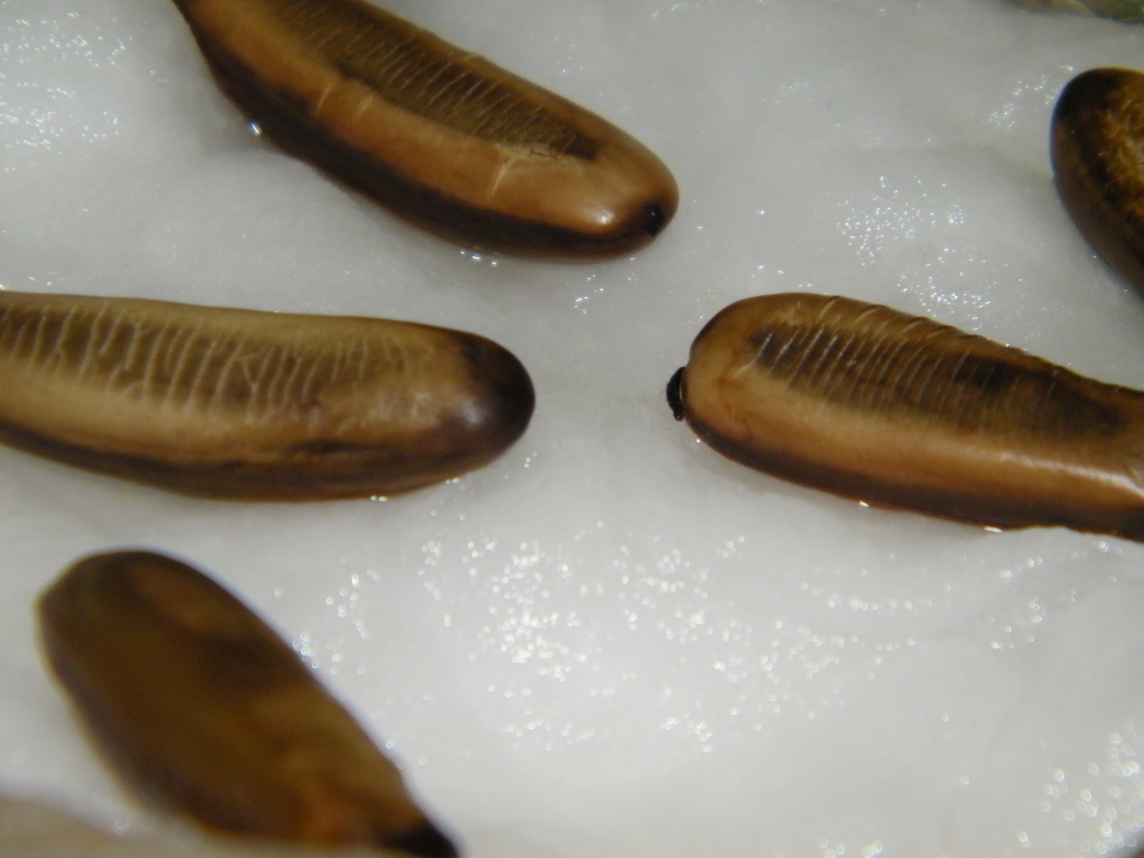 The breaking of the seed coat : My "Royal Poinciana Tree " seeds after soaking them in water for 6 days. I remembered this verse in Quran : إِنَّ اللَّهَ فَالِقُ الْحَبِّ وَالنَّوَى يُخْرِجُ الْحَيَّ مِنَ الْمَيِّتِ وَمُخْرِجُ الْمَيِّتِ مِنَ الْحَيِّ ذَلِكُمُ اللَّهُ فَأَنَّى تُؤْفَكُونَ -الانعام٩٥